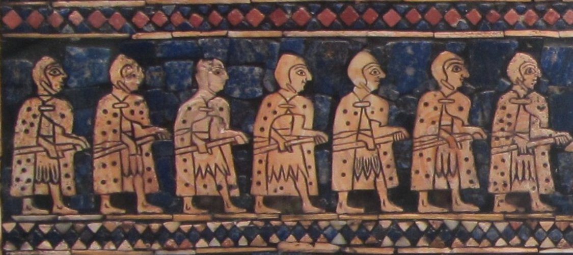 Detail of the standard of Ur in the British Museum, London. Left part of middle register of the "War" side. Derived from File:Standard of Ur front view.jpg, uploaded by User:BabelStone (distortion removed and cropped).